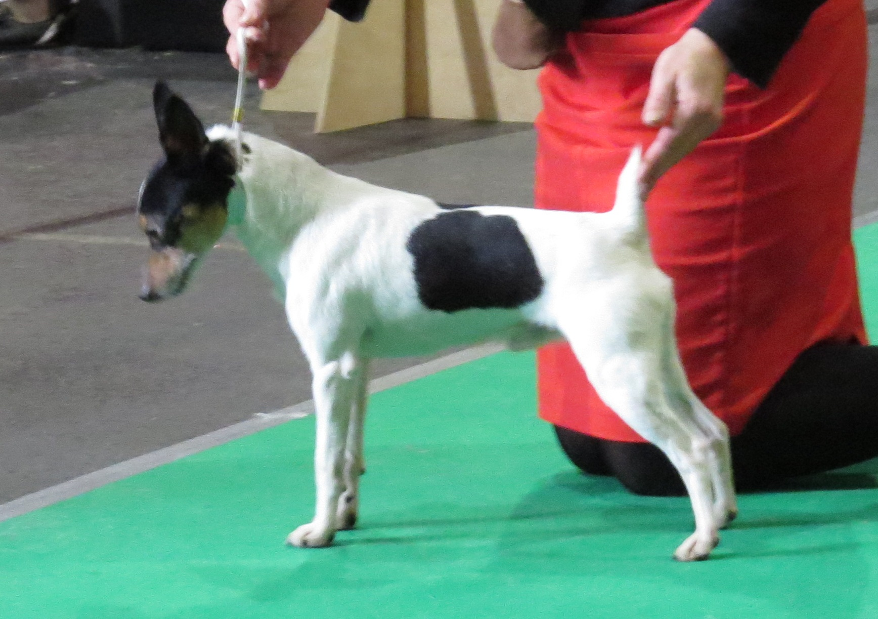 Riga, Baltic Winner -2013, 9-10 Nov